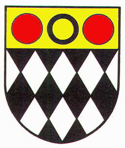 Shield of former Eastwood Urban District Council. Lozengy Argent and Sable on a Chief Or an Annulet of the second between two Torteaux. Public domain. Granted 17th May 1951.